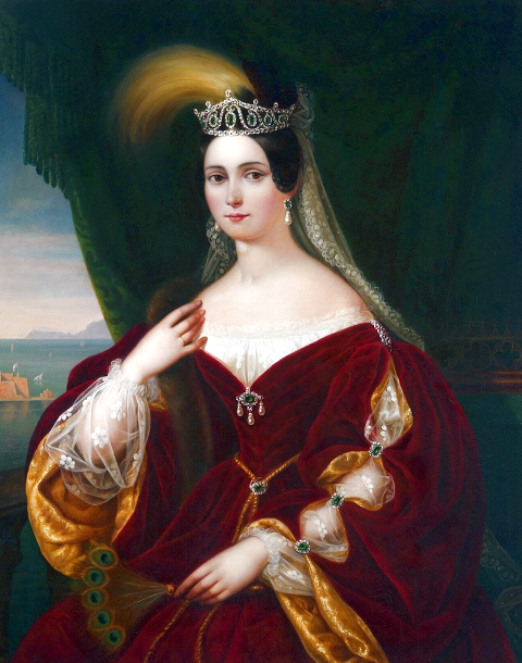 Maria Theresa of Austria, queen of the Two Sicilies